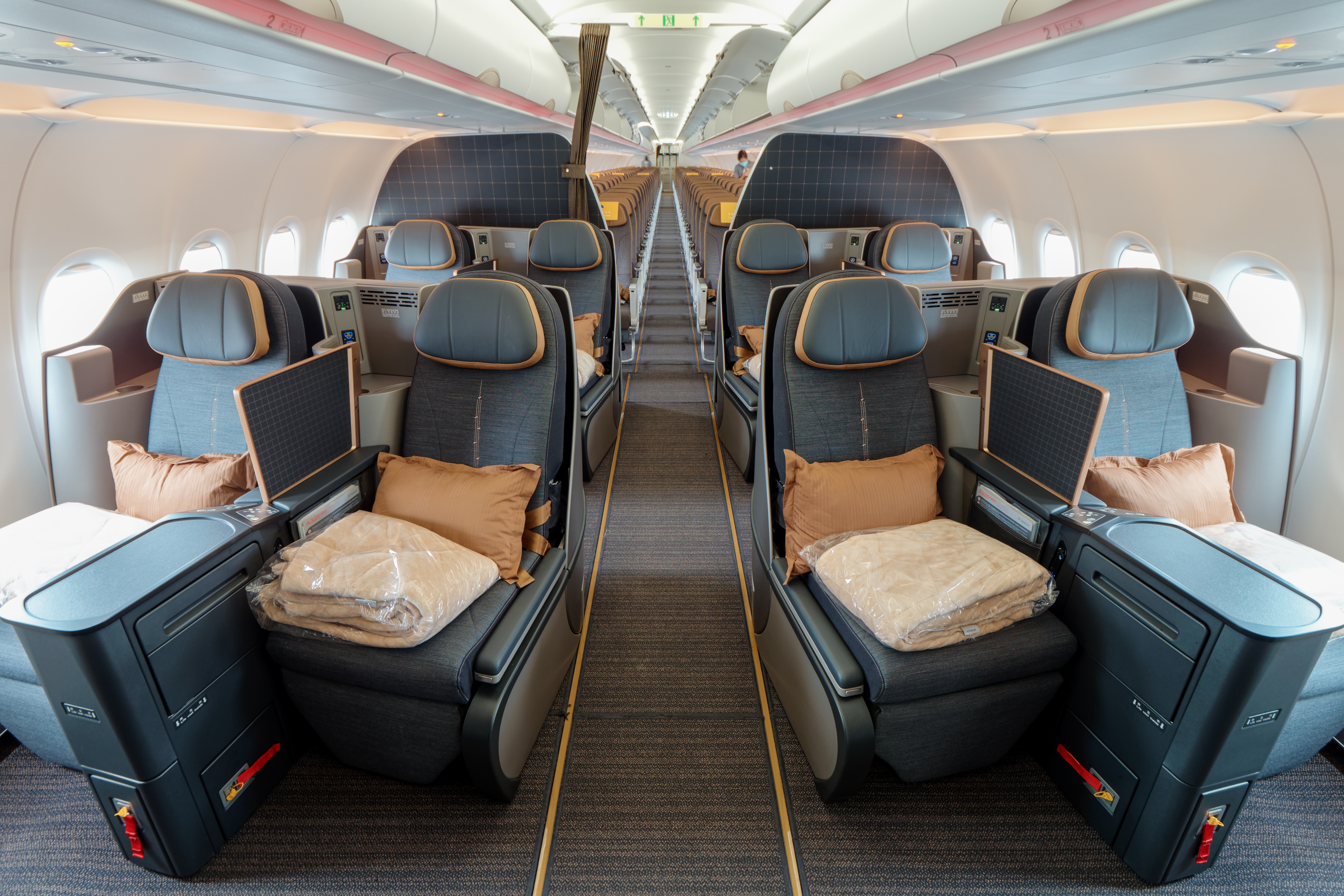 STARLUX Airlines Airbus A321-200NEO B-58203